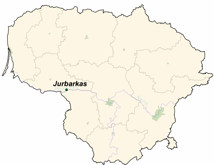 Jurbarkas on the map of Lithuania